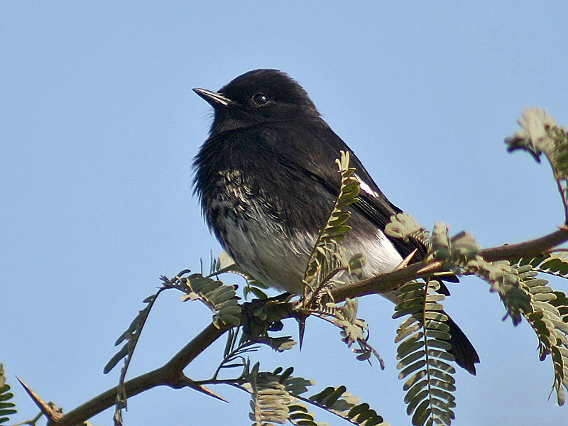 Pied Bushchat (Saxicola caprata) at/ near Hodal in Faridabad District of Haryana, India.